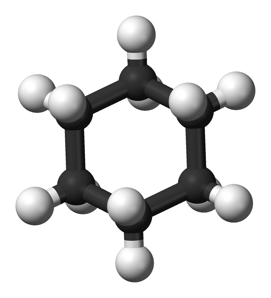 Ball-and-stick model of the cyclohexane molecule, a cycloalkane used as a solvent, and a raw material in organic synthesis.